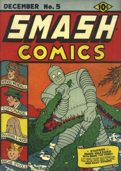 Cover of Smash Comics #5, December 1939